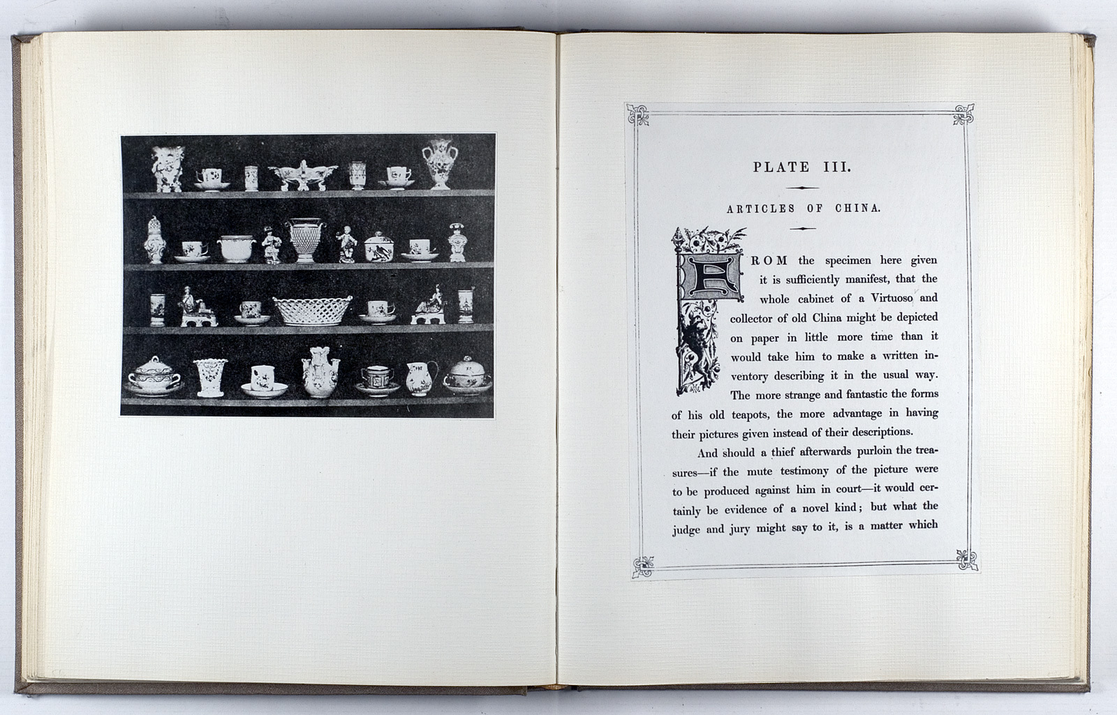 «The Pencil of Nature» - by Henry Fox Talbot The photograph of a porcelain collection comes from the famous, first book on the history of photography, «The Pencil of Nature» (1844 – 1846), in which Henry Fox Talbot, inventor of the negative-positive process, reflects various applications of the new medium and presents them using photographic examples. Regarding this particular example, he states: «[...] And should a thief afterwards purloin the treasures – if the mute testimony of the picture were to be produced against him in court – it would certainly be evidence of a novel kind […]» (William Henry Fox Talbot, The Pencil of Nature, Reprint New York 1969). Talbot also emphasizes that photography is capable of depicting every object and their details with the same degree of precision. It can therefore function as a way of securing an archive’s inventory.